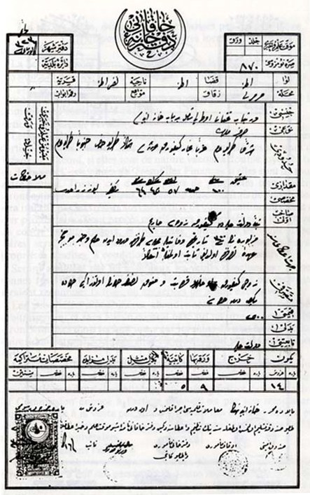 List receipts of the confiscated properties were given to the Armenians before their ‘departure.’ An example of a receipt given by the commission to Mariam from Adana (1915)